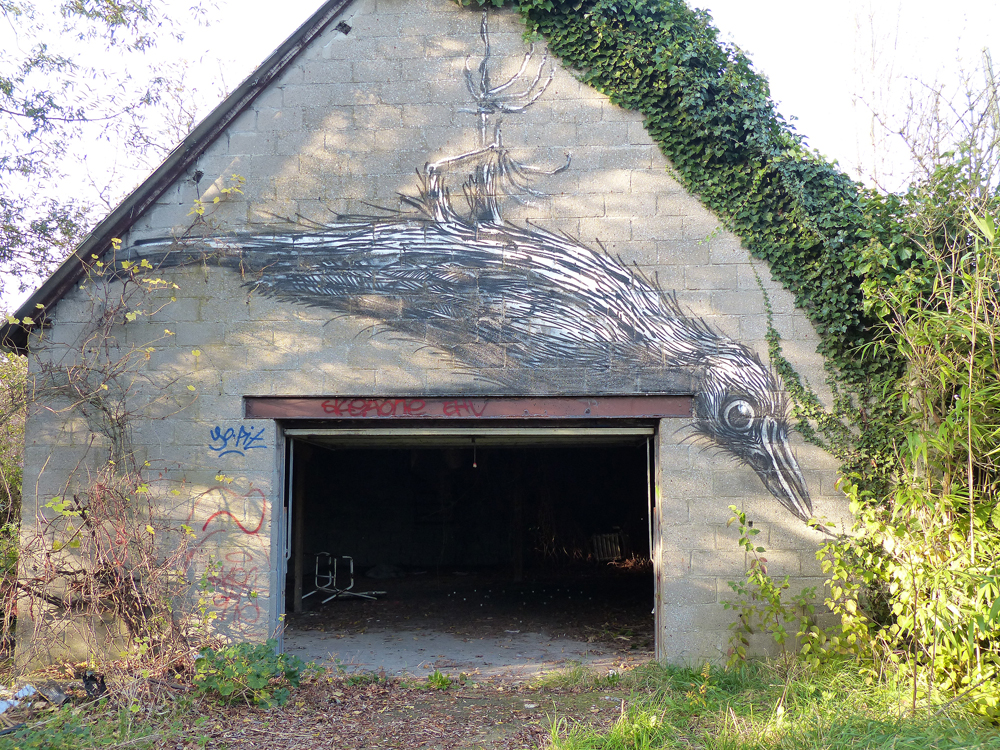 Dead Bird in Doel (Belgium)